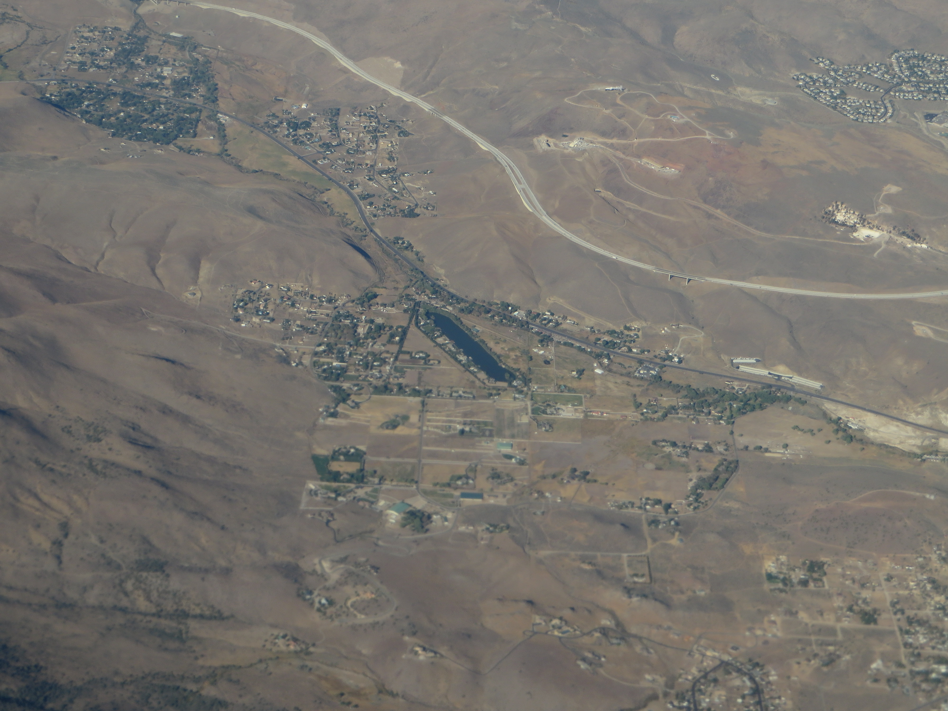 Pleasant Valley is a very small, unincorporated community in Washoe County, Nevada, United States. The ZIP Code for Pleasant Valley is 89511. The community is part of the Reno–Sparks Metropolitan Statistical Area, and US Route 395 runs through it, and acts as a divider between the eastern and western halves of the valley.